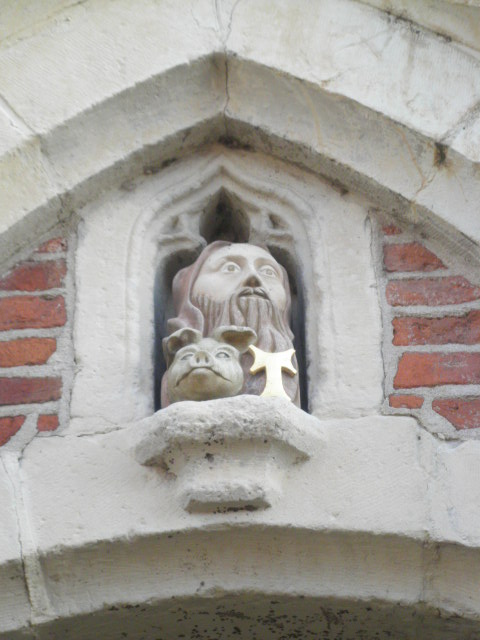 Work: Saint Anthony; Artists:Rob Scheen (sculptor) and Max Polman (painter); Year: 2000; Street: Oosterkerksteeg; Material: Lime stone.